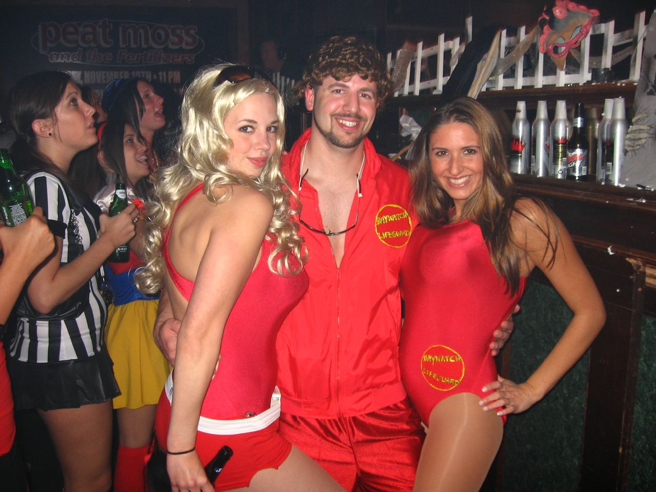 Baywatch Lifeguard Costumes (male and female). Halloween 2006Baywatch